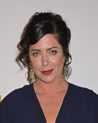 Jennie Silfverhjelm, 2018